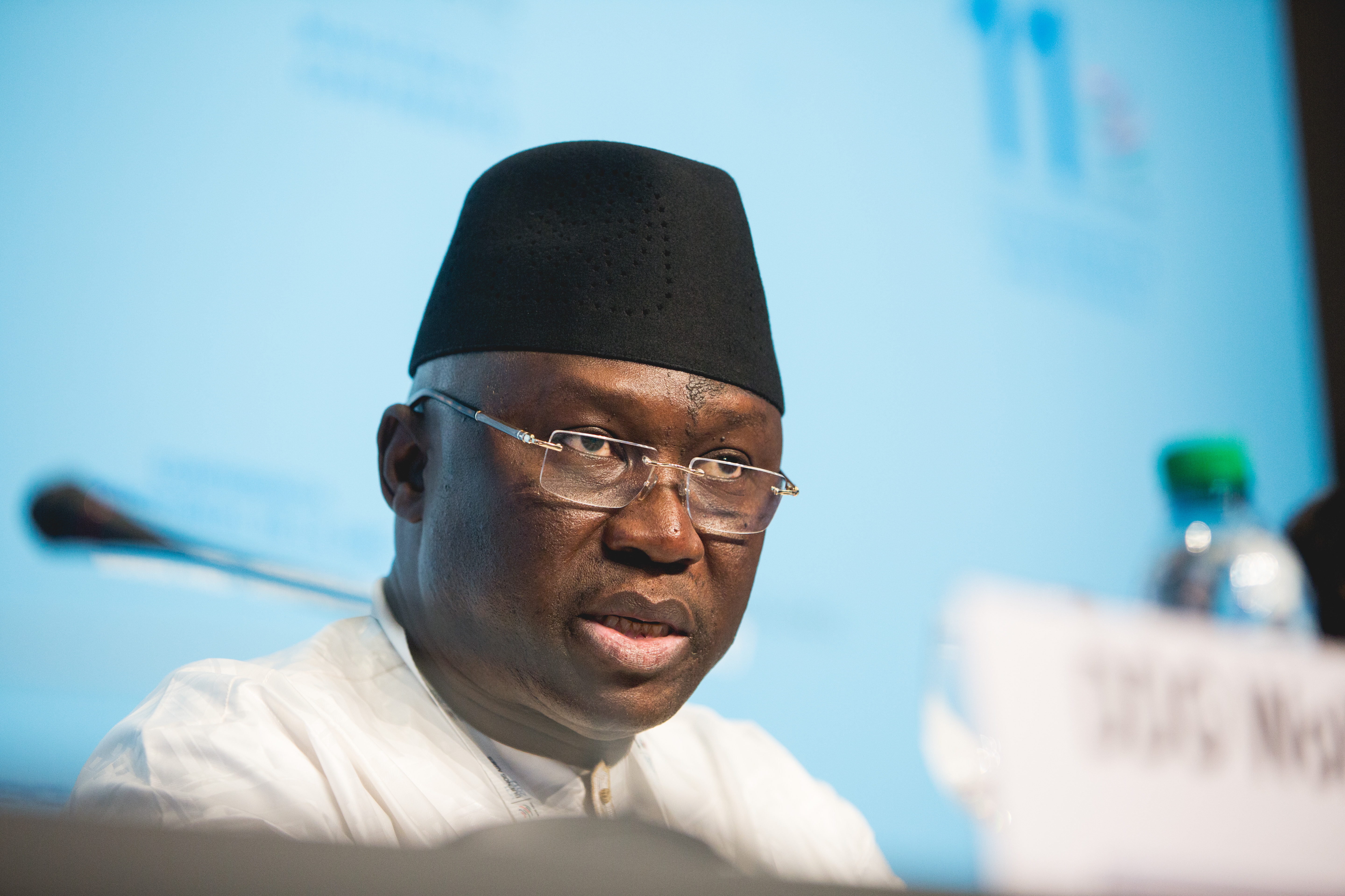 Photos from the WTO/ITC cotton portal launch event photo gallery may be reproduced provided attribution is given to the WTO and the WTO is informed. Photos: © WTO/ Cuika Foto